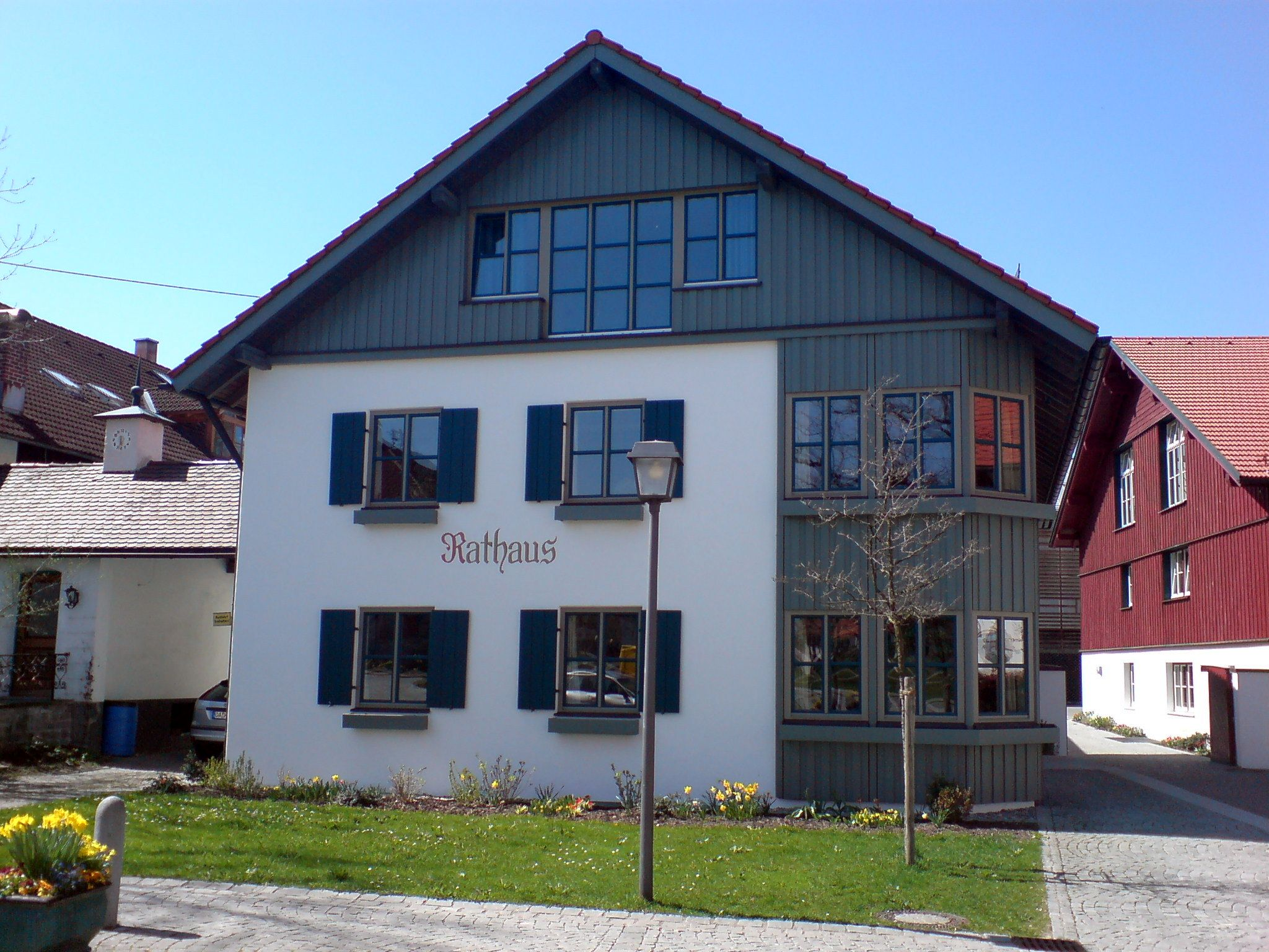 town hall of the municipality Wiggensbach (Swabia)